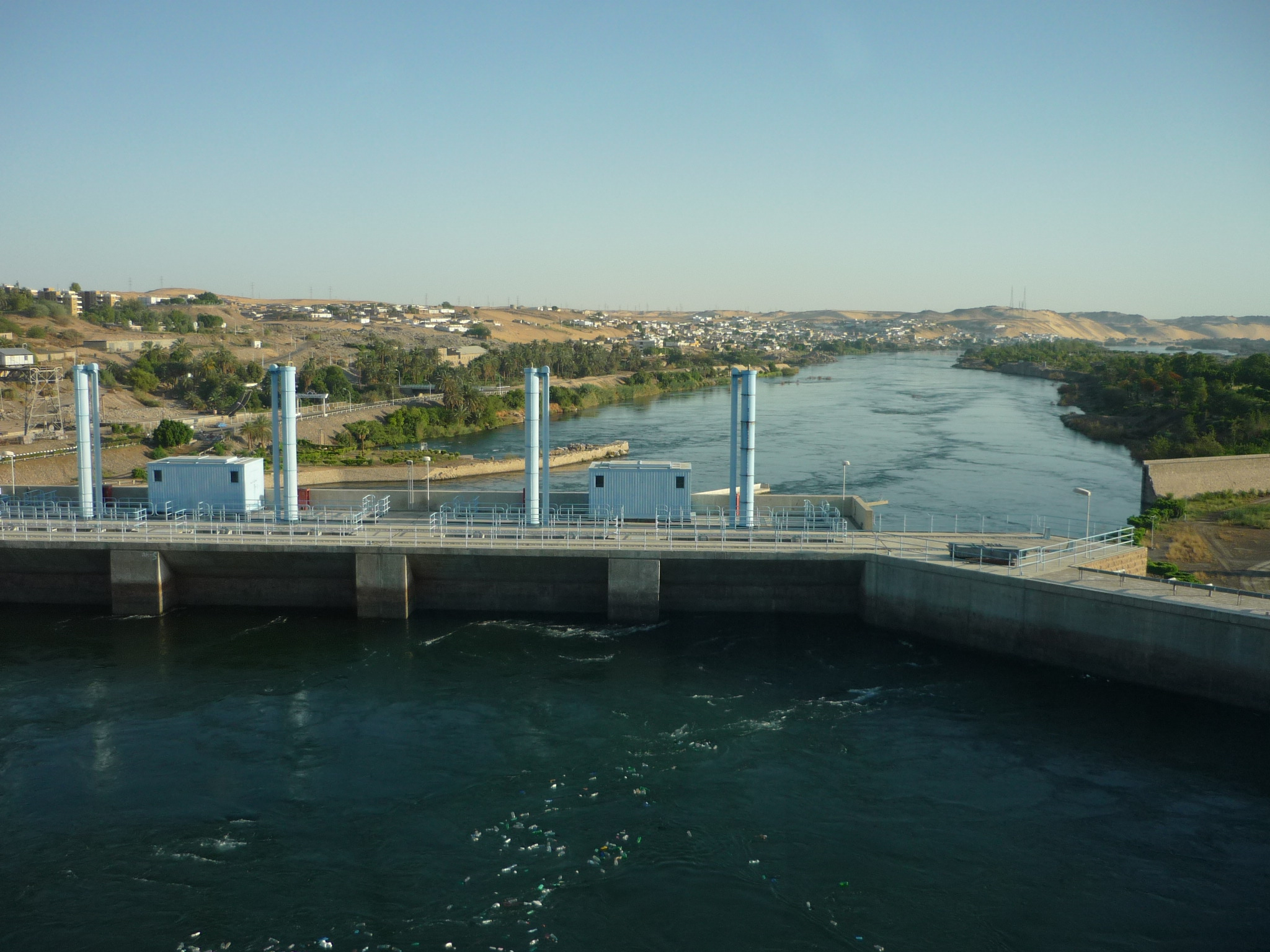 Nile from Aswan low dam, Egypt